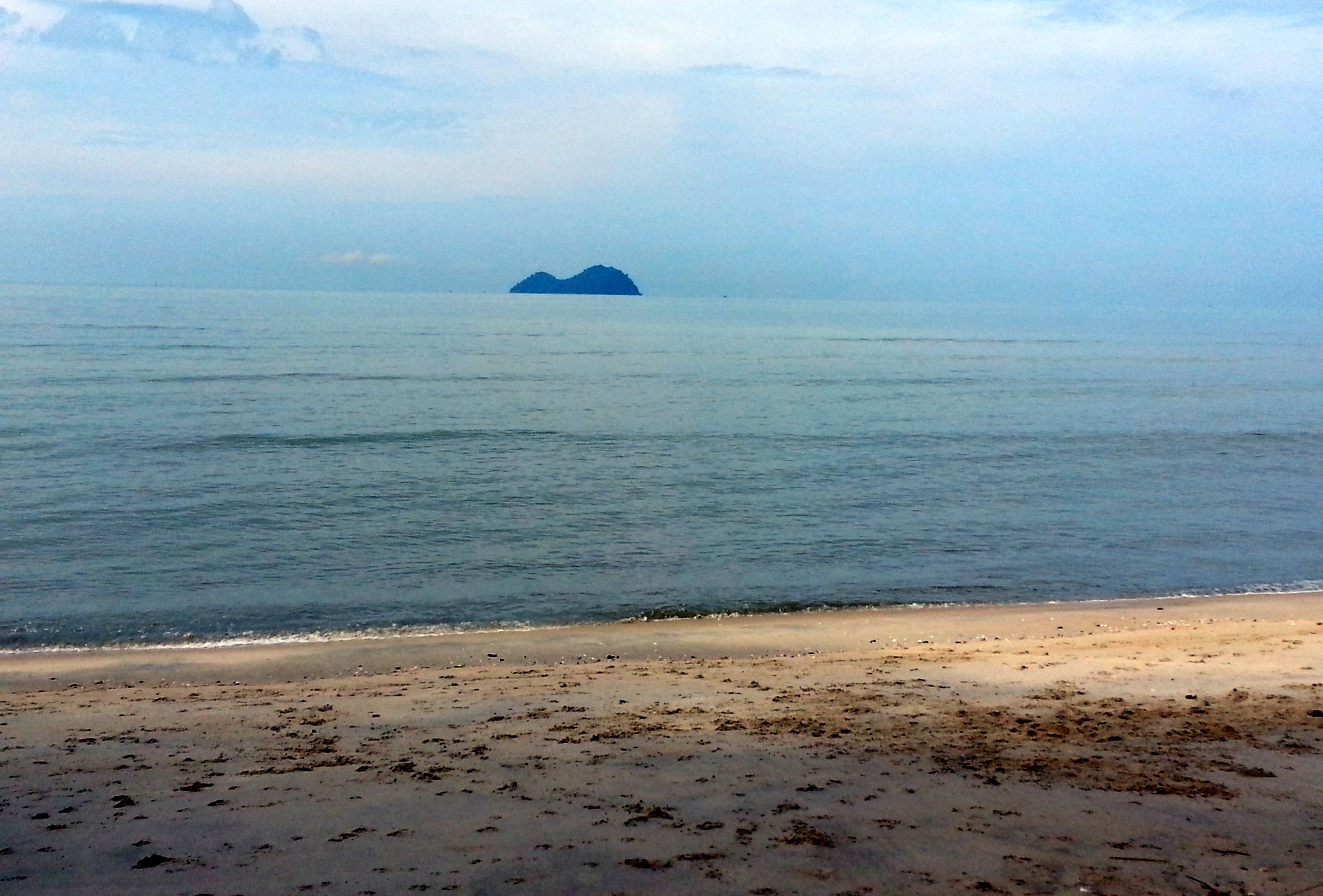 Kendi Island as seen from Teluk Kumbar along the southern coast of Penang Island.